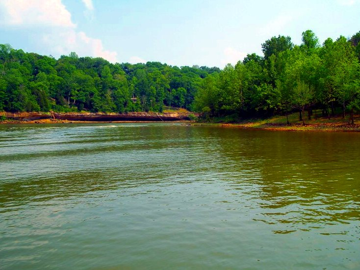 Rough River Lake just East of intersection with KY state highway 737.